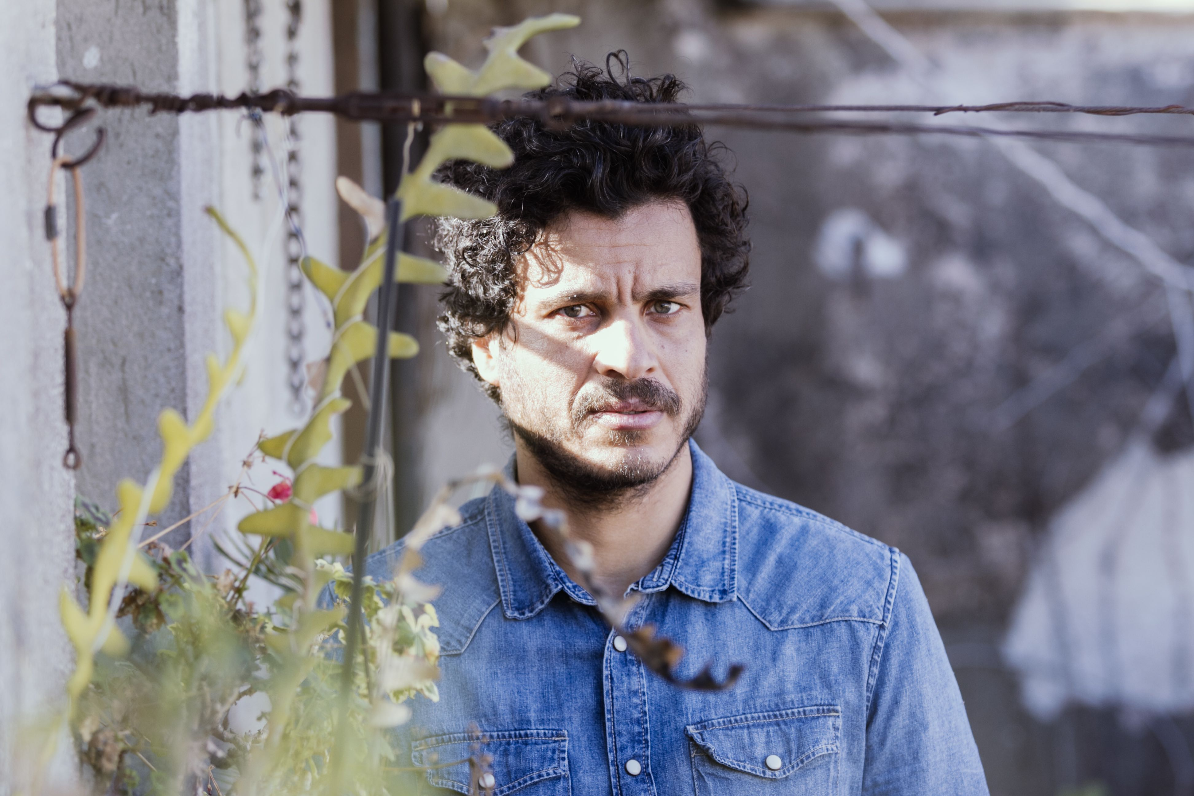 Mohamed Zouaoui